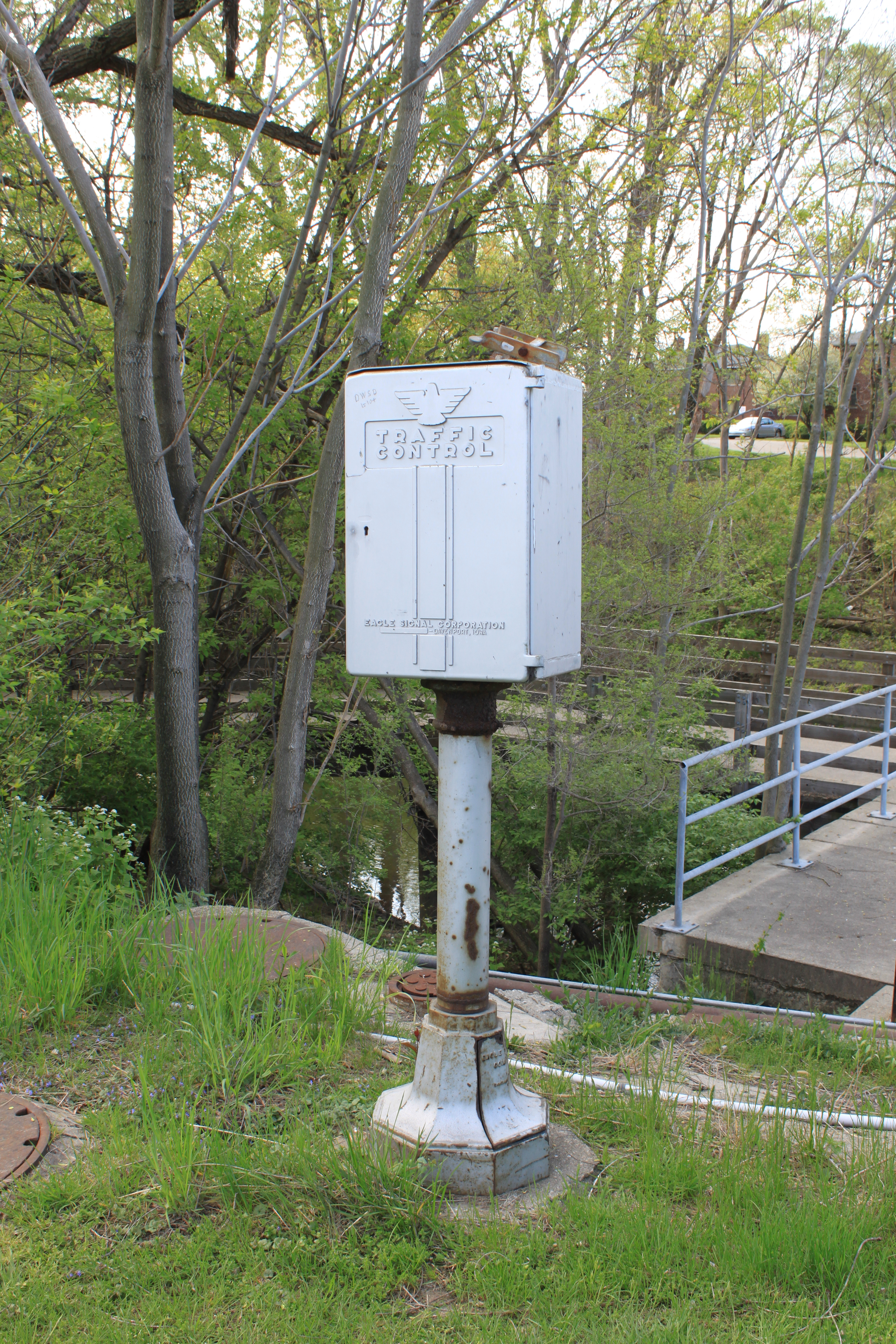 Traffic signal control box in Ford Field Park at Telegraph Road and Michigan Avenue, Dearborn, Michigan. The box was manufactured by the Eagle Signal Corporation of Davenport, Iowa.